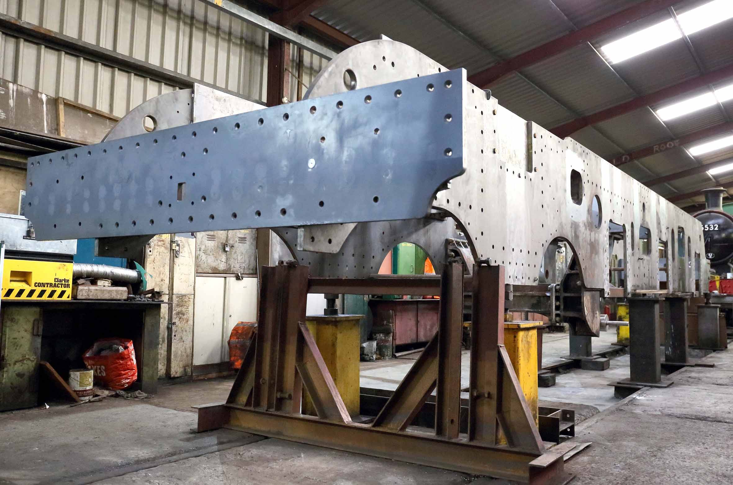 hgjhvbgjh